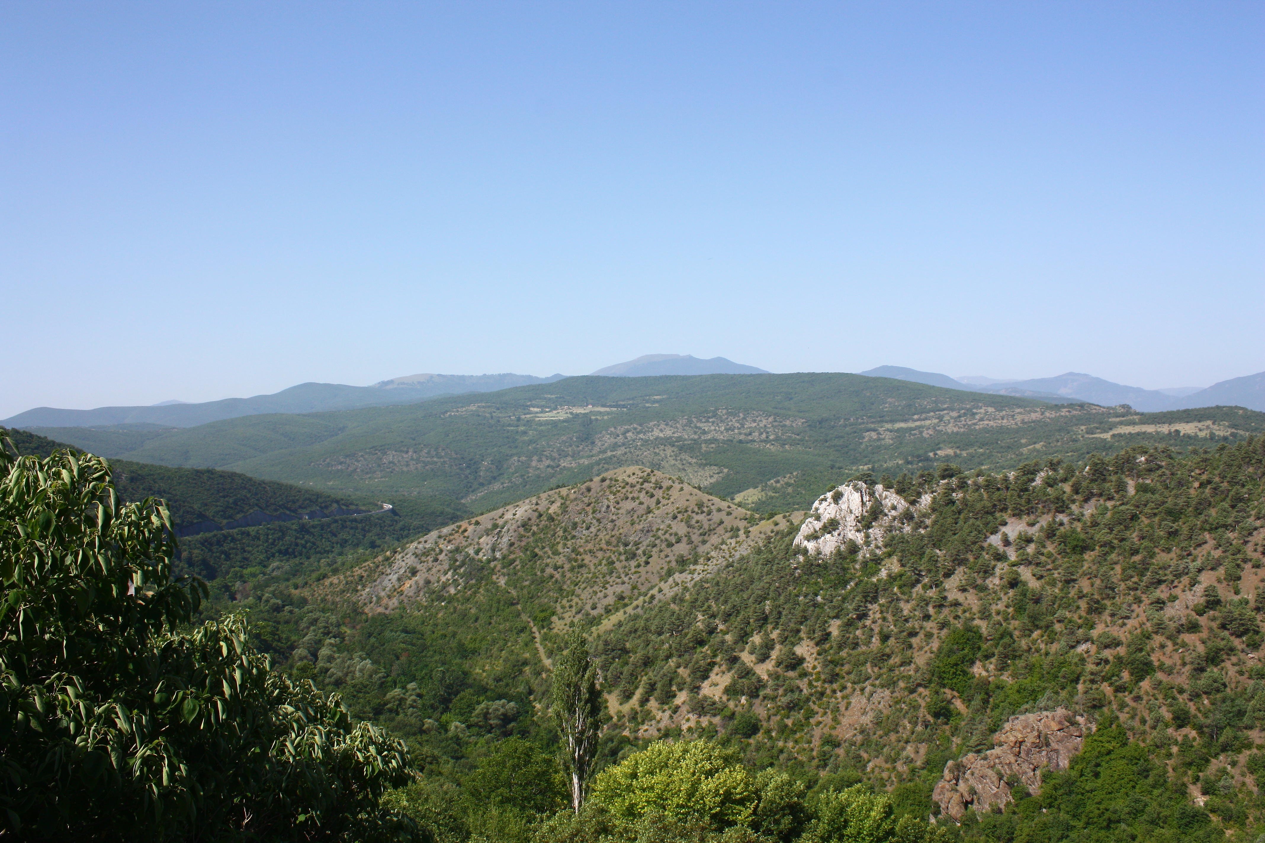 St. John the Baptist Church in Vetersko, Macedonia